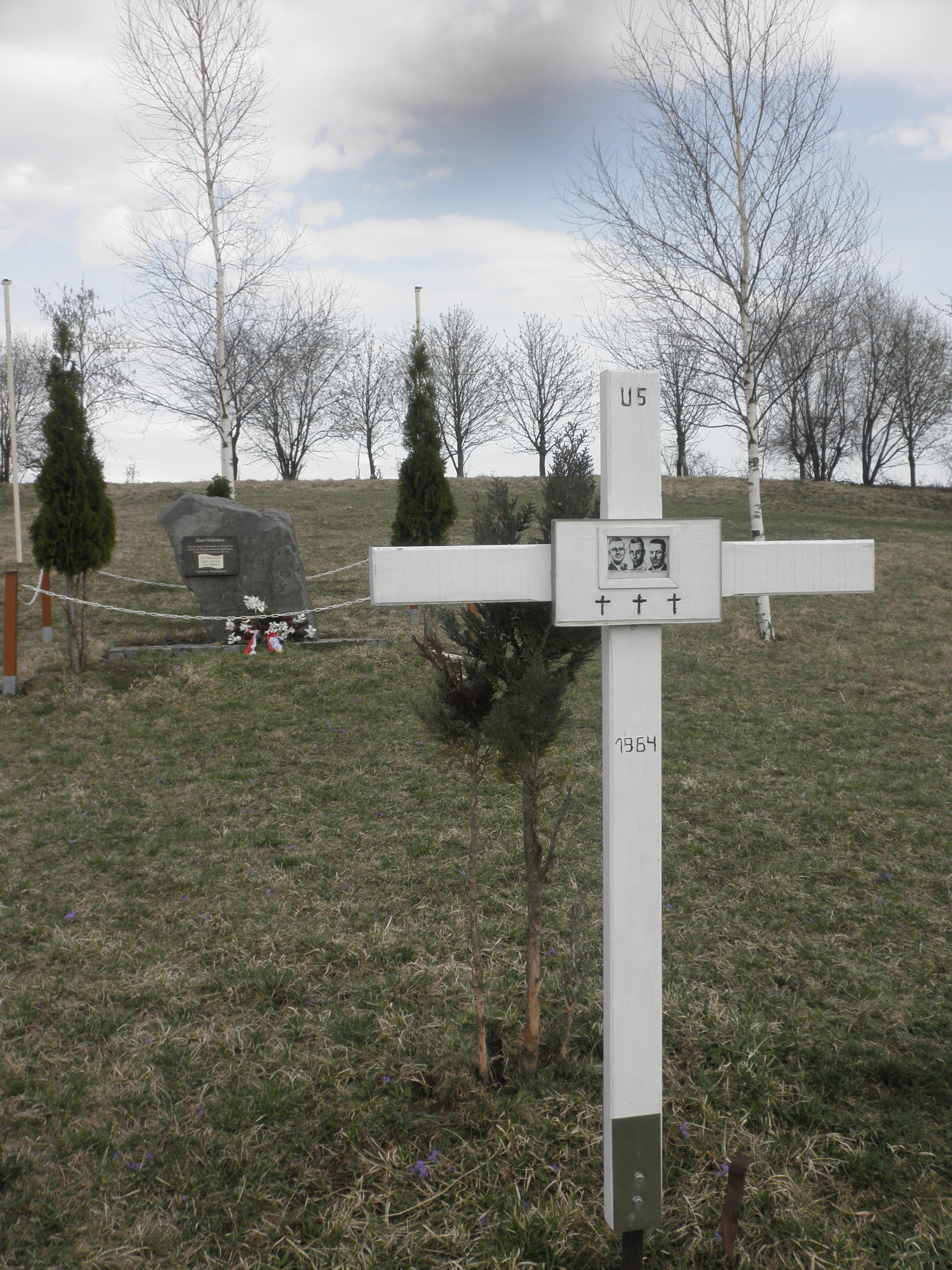 Monument for Aircraftmen near Vogelsberg (Thuringia)